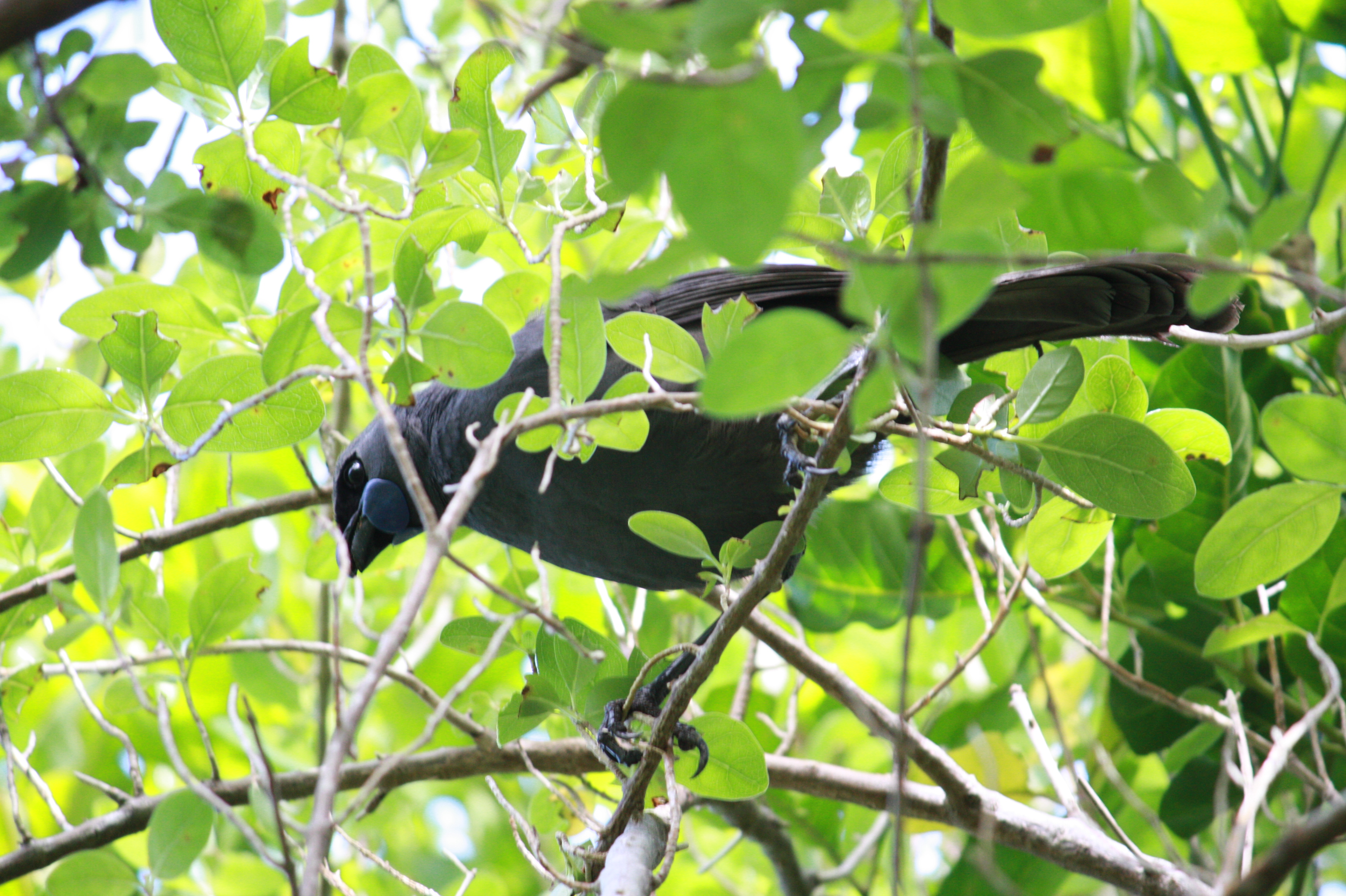 Kokako feeding in a coprosma tree on Hauturu, Little Barrier Island, New Zealand